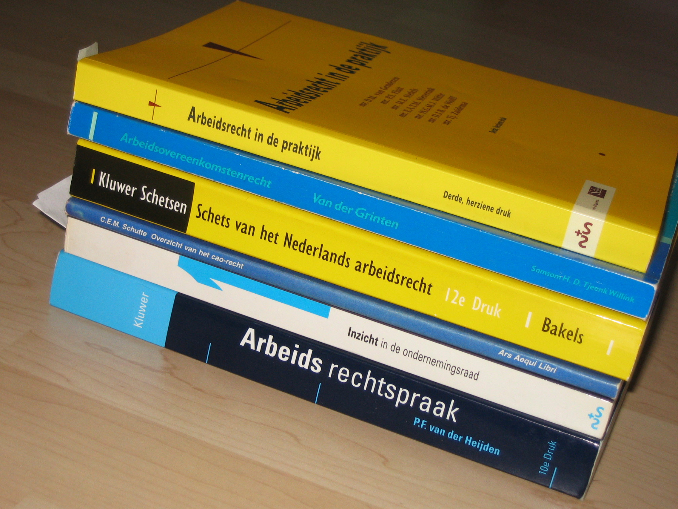 Books about Dutch labour law.